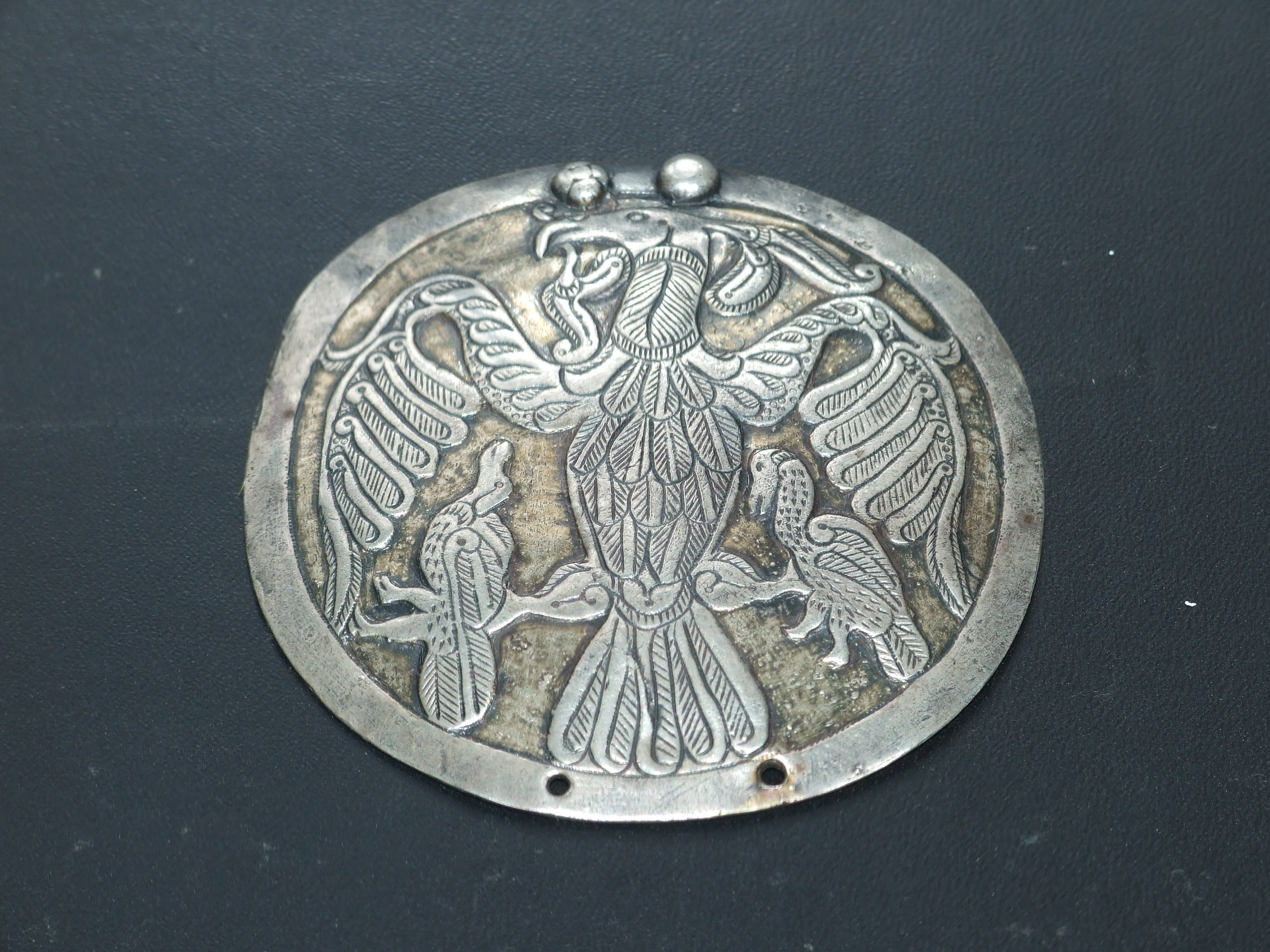 Gilt silver plague with motive of mythic bird (Hungary, 10th century). Prehistoric Times of Bohemia, Moravia and Slovakia, National Museum in Prague